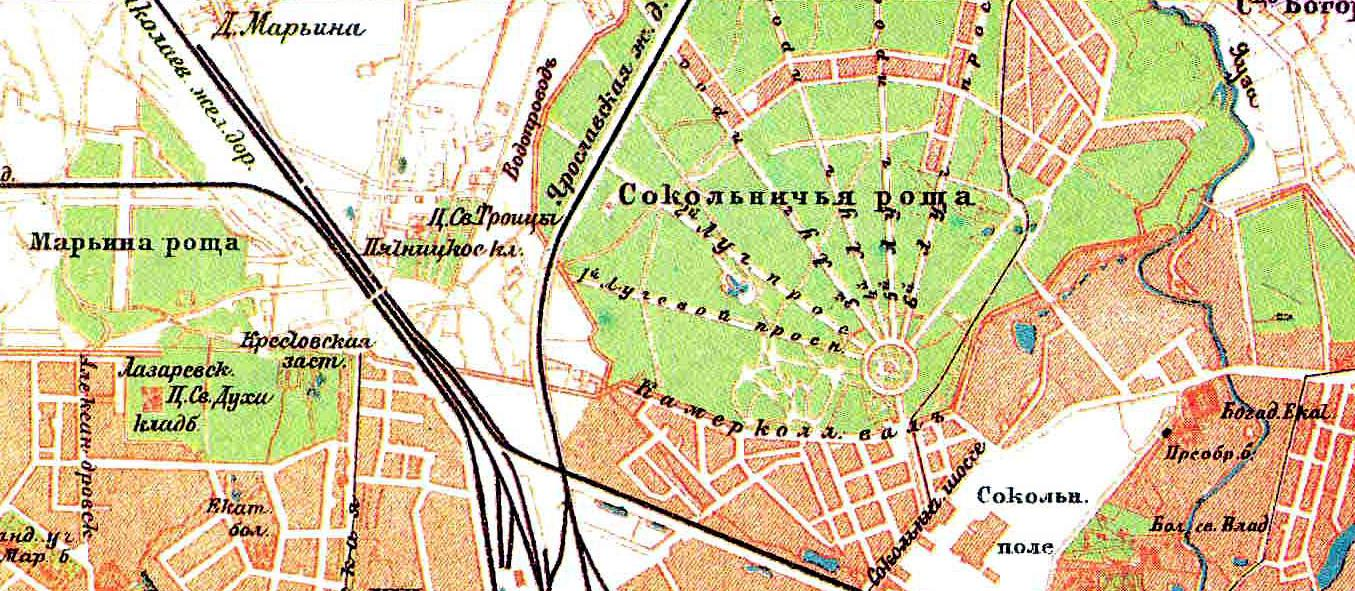 An 1895 map of Sokolniki and Maryina groves in Moscow